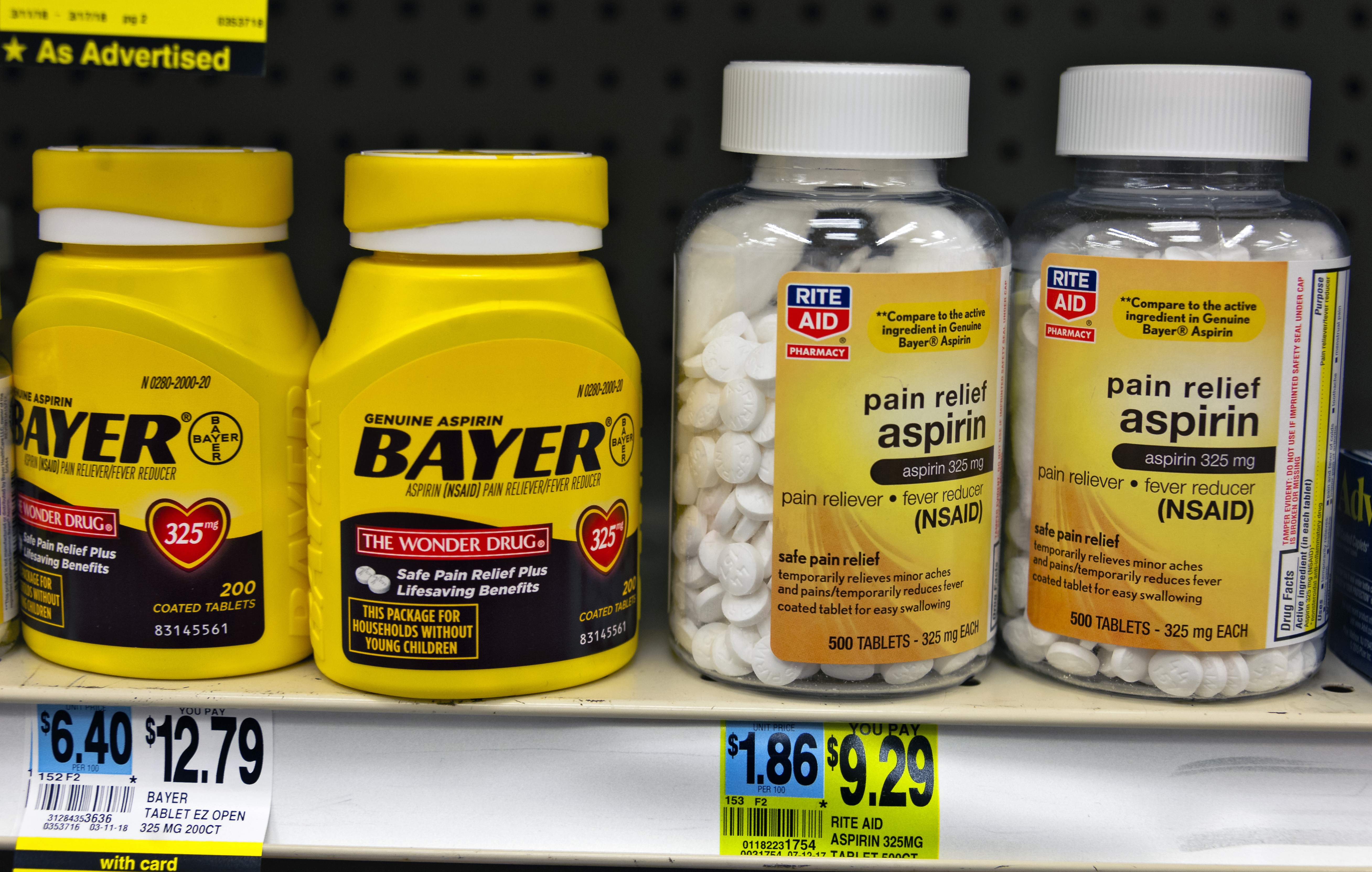 Bottles of Aspirin, made by Bayer and Rite Aid, side-by-side on a store shelf in Montgomery, NY, USA. Both manufacturers may use the brand name generically since asprin is not a protected trademark in the U.S.